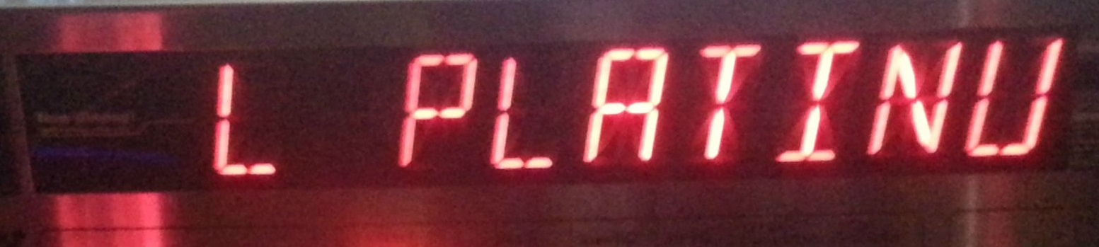 A sixteen-segment display on a Beatmania IIDX 14 GOLD arcade machine.